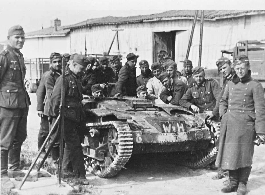 German soldiers with Renault UE Chenillette, france 1940